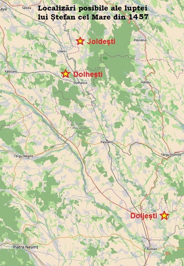 Posible place for the Battle of Ștefan cel Mare, from 1457